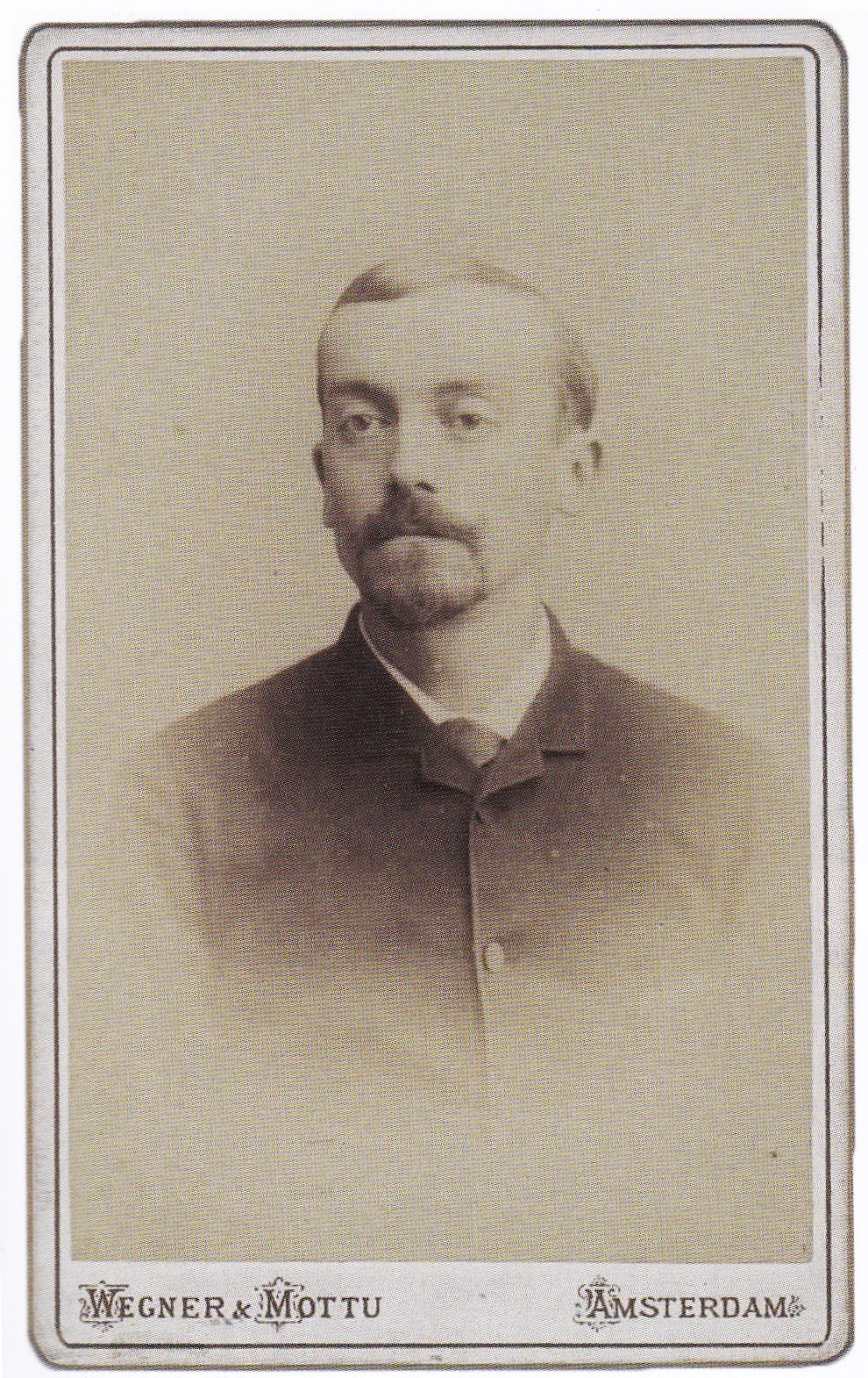 Photograph of Gerret Rouffaer (by Wegner & Mottu Amsterdam, ca. 1890)